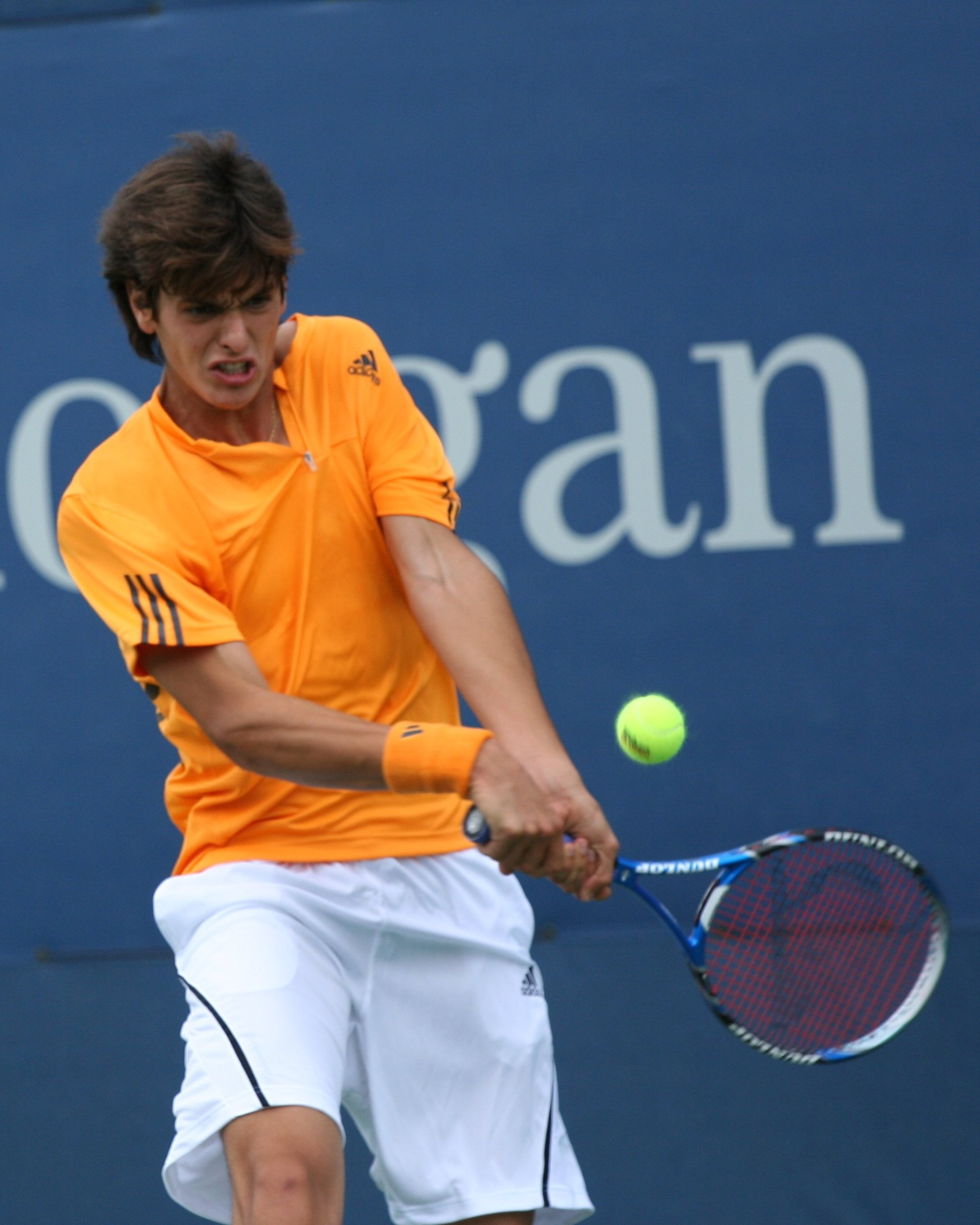 U.S. Open Juniors Thursday, Sept. 10, 2009